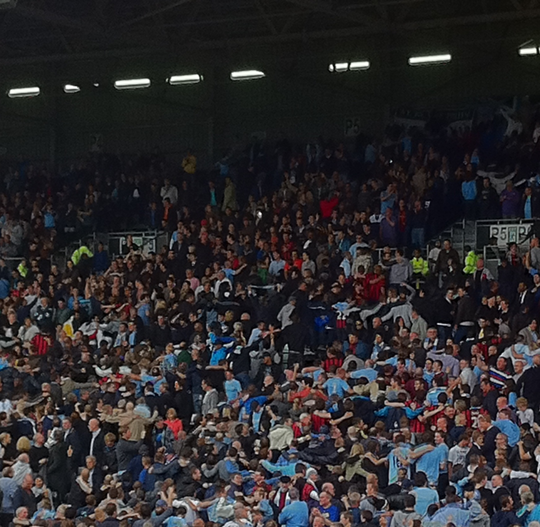 Manchester City fans doing the Poznan at Craven Cottage after scoring at Craven Cottage